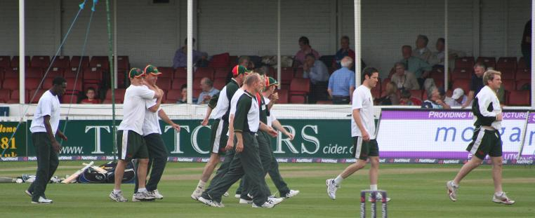 current squad of the Leicestershire CCC warming up